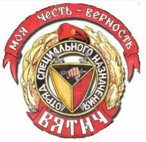 Эмблема 15 ОСН ВВ МВД "Вятич"